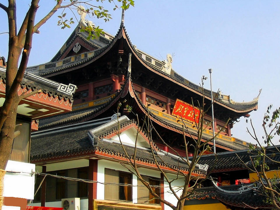 Nanchan Pagoda in Wuxi, China